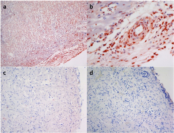 (a) Heart from HSMI-infected fish (10×); (b) heart from HSMI-infected fish (40×); (c) heart from non-infected fish (40×); (d) heart from a fish infected with salmon pancreas disease virus.